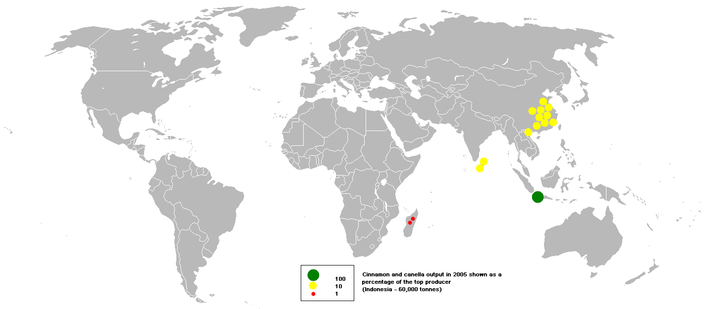 This bubble map shows the global distribution of cinnamon and canella output in 2005 as a percentage of the top producer (Indonesia - 60,000 tonnes). This map is consistent with incomplete set of data too as long as the top producer is known. It resolves the accessibility issues faced by colour-coded maps that may not be properly rendered in old computer screens. Data was extracted on 14th June 2007 from Based on :Image:BlankMap-World.png According to the International Herald Tribune, in 2006 Sri Lanka produced 90% of the world's cinnamon, followed by China, India, and Vietnam.[15] According to the FAO, Indonesia produces 40% of the world's Cassia genus of cinnamon.